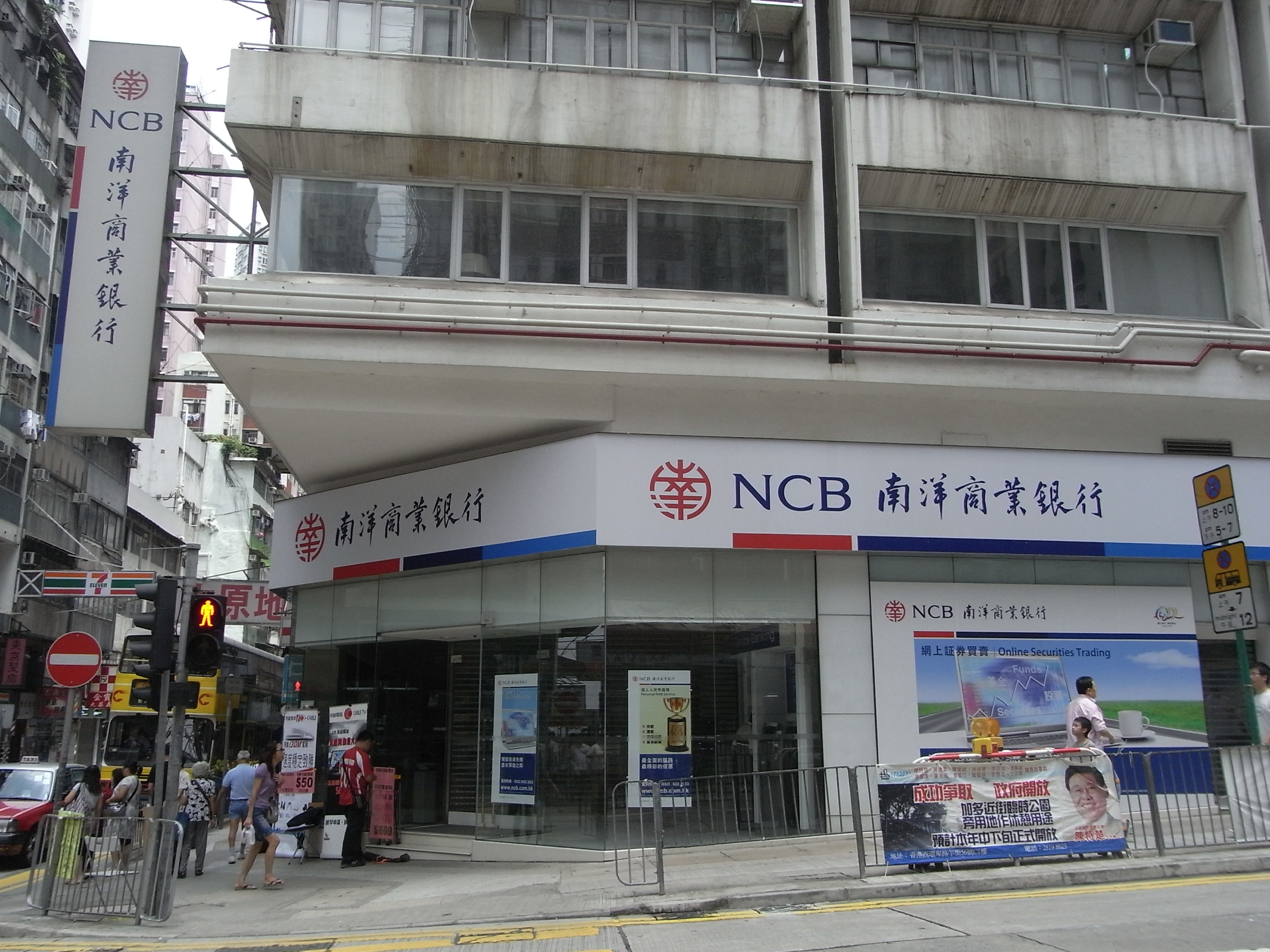 香港島堅尼地城 南生大廈 南洋商業銀行